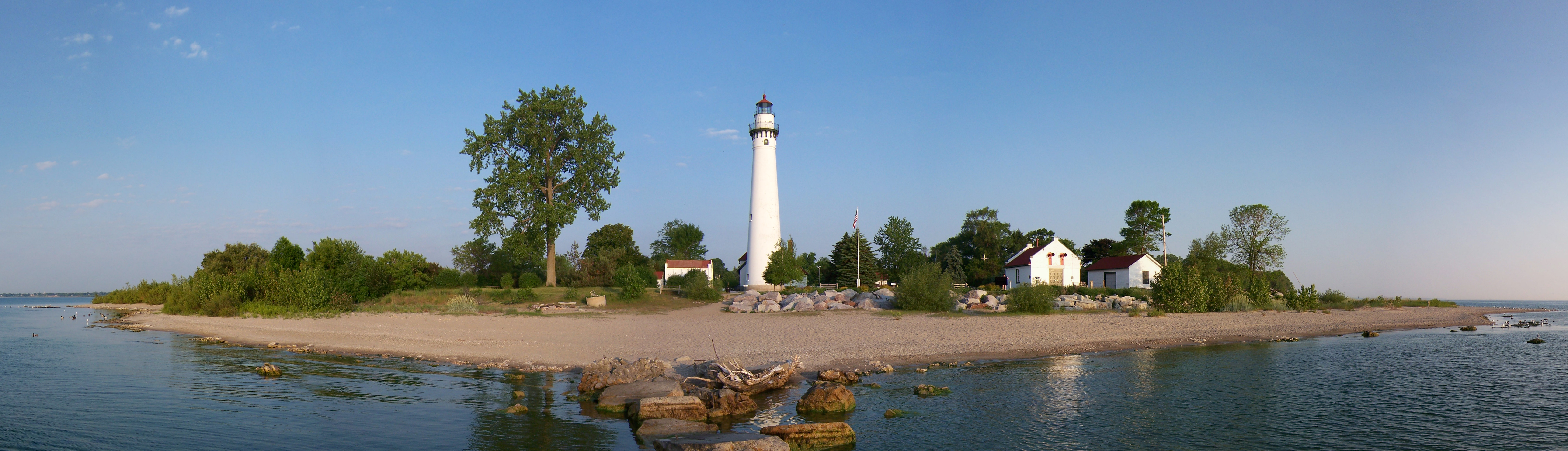 This is a picture of the Wind Point Lighthouse, taken a in the summer of 2007 at sunrise. This image is released under the below license by the by the photographer and editor, Daniel J Simanek. This image was originally uploaded for use in Wind Point Light. Please list other uses below